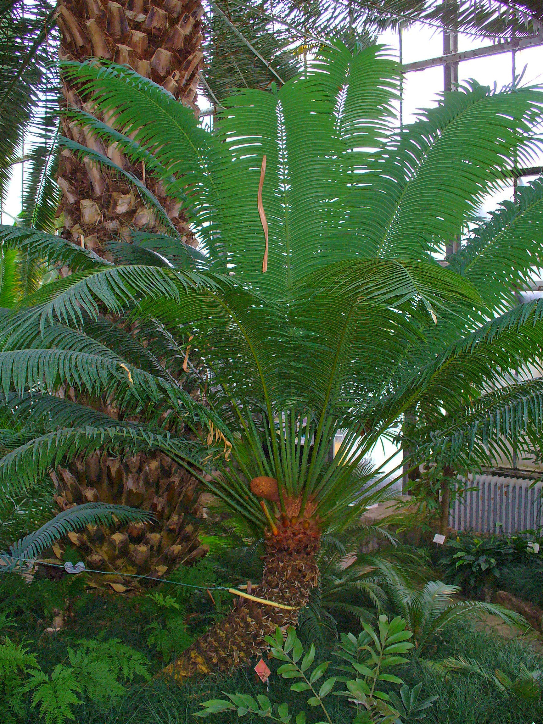 Cycas circinalis, Cycadaceae, Queen Sago, False Sago, Fern Palm, habitus, male; Botanical Garden KIT, Karlsruhe, Germany.